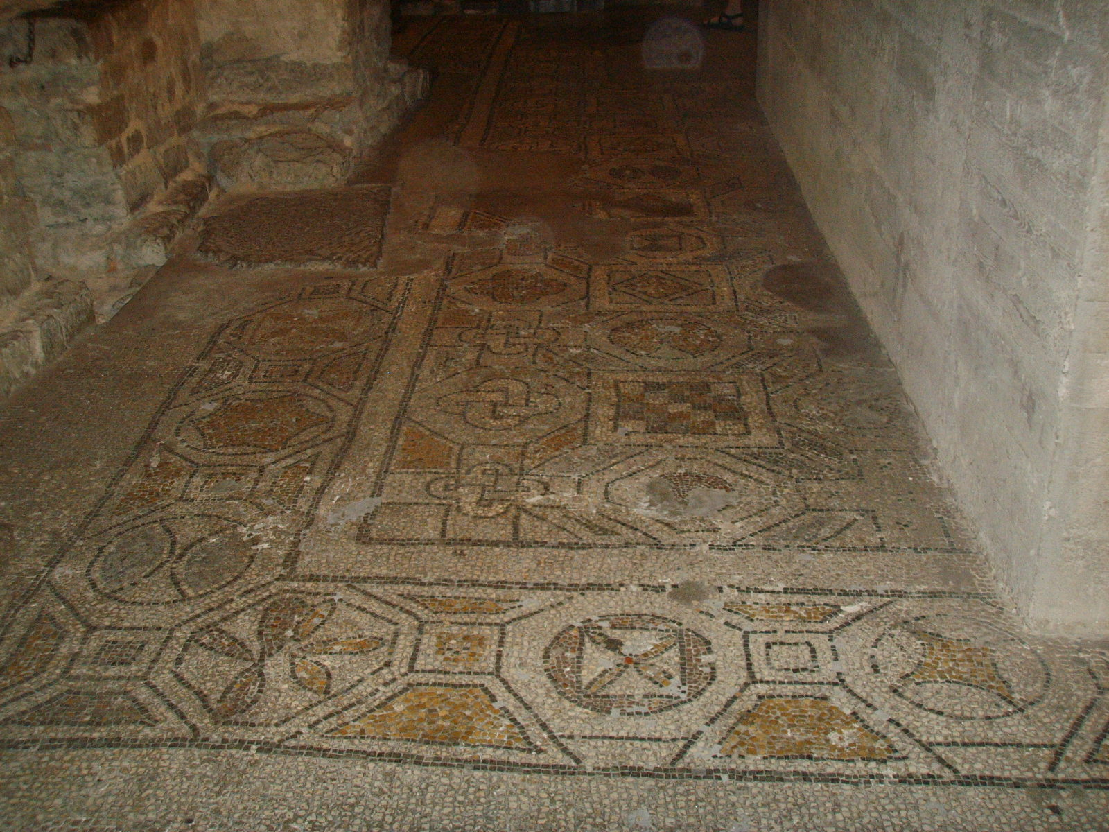 Paleochristian mosaic at Santa Reparata, an underground archeological church in Florence, Italy. Ancient Roman mosaic made from many tesserae (4th century CE).